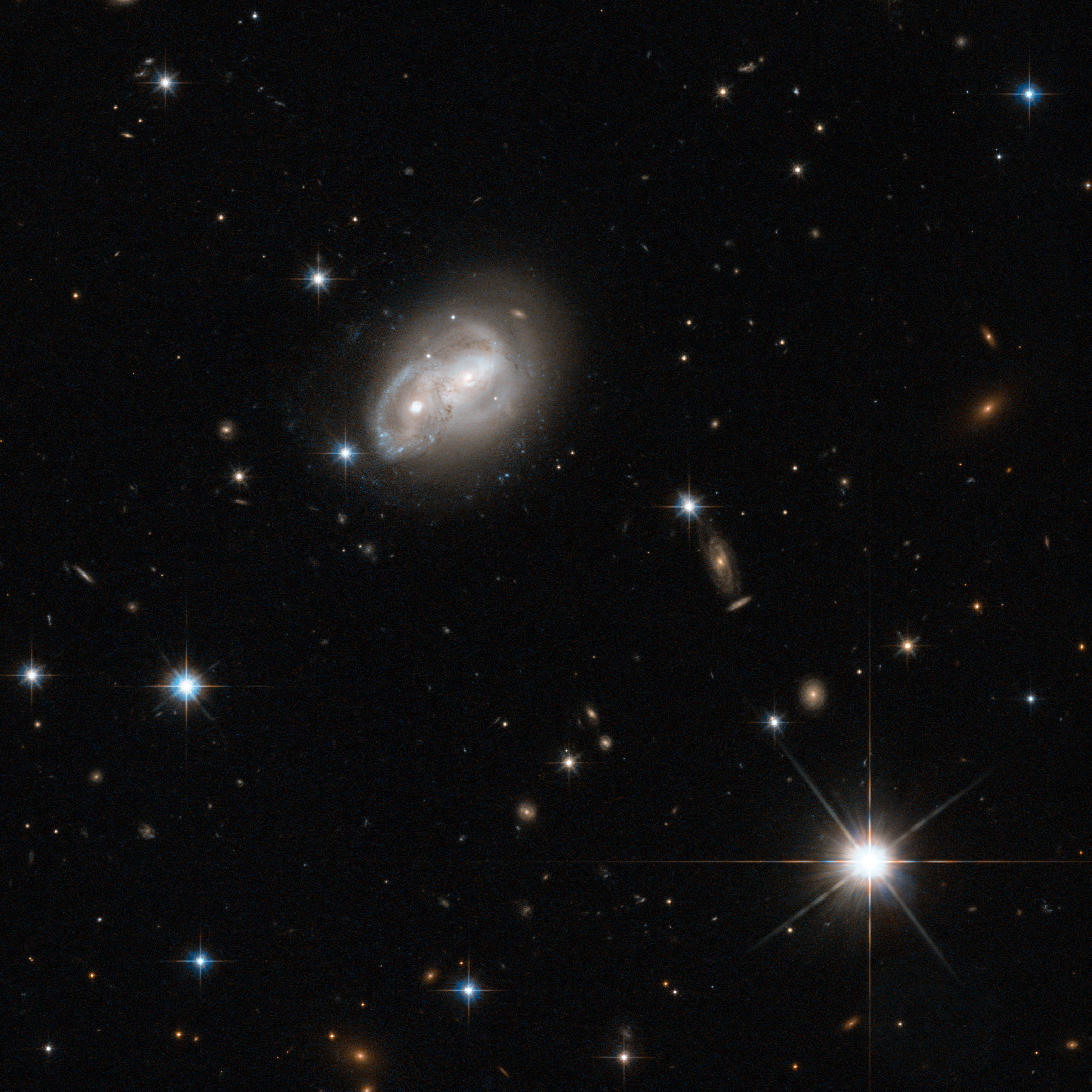 From objects as small as Newton's apple to those as large as a galaxy, no physical body is free from the stern bonds of gravity, as evidenced in this stunning picture captured by the Wide Field Camera 3 and Advanced Camera for Surveys onboard the NASA/ESA Hubble Space Telescope. Here we see two spiral galaxies engaged in a cosmic tug-of-war — but in this contest, there will be no winner. The structures of both objects are slowly distorted to resemble new forms, and in some cases, merge together to form new, super galaxies. This particular fate is similar to that of the Milky Way Galaxy, when it will ultimately merge with our closest galactic partner, the Andromeda Galaxy. There is no need to panic however, as this process takes several hundreds of millions of years. Not all interacting galaxies result in mergers though. The merger is dependent on the mass of each galaxy, as well as the relative velocities of each body. It is quite possible that the event pictured here, romantically named 2MASX J06094582-2140234, will avoid a merger event altogether, and will merely distort the arms of each spiral without colliding — the cosmic equivalent of a hair ruffling! These galactic interactions also trigger new regions of star formation in the galaxies involved, causing them to be extremely luminous in the infrared part of the spectrum. For this reason, these types of galaxies are referred to as LIRGs, or Luminous Infrared Galaxies. This image was taken as part of as part of a Hubble survey of the central regions of LIRGs in the local Universe, which also used the NICMOS instrument. A version of this image was entered into the Hubble's Hidden Treasures image processing competition by contestant Luca Limatola.